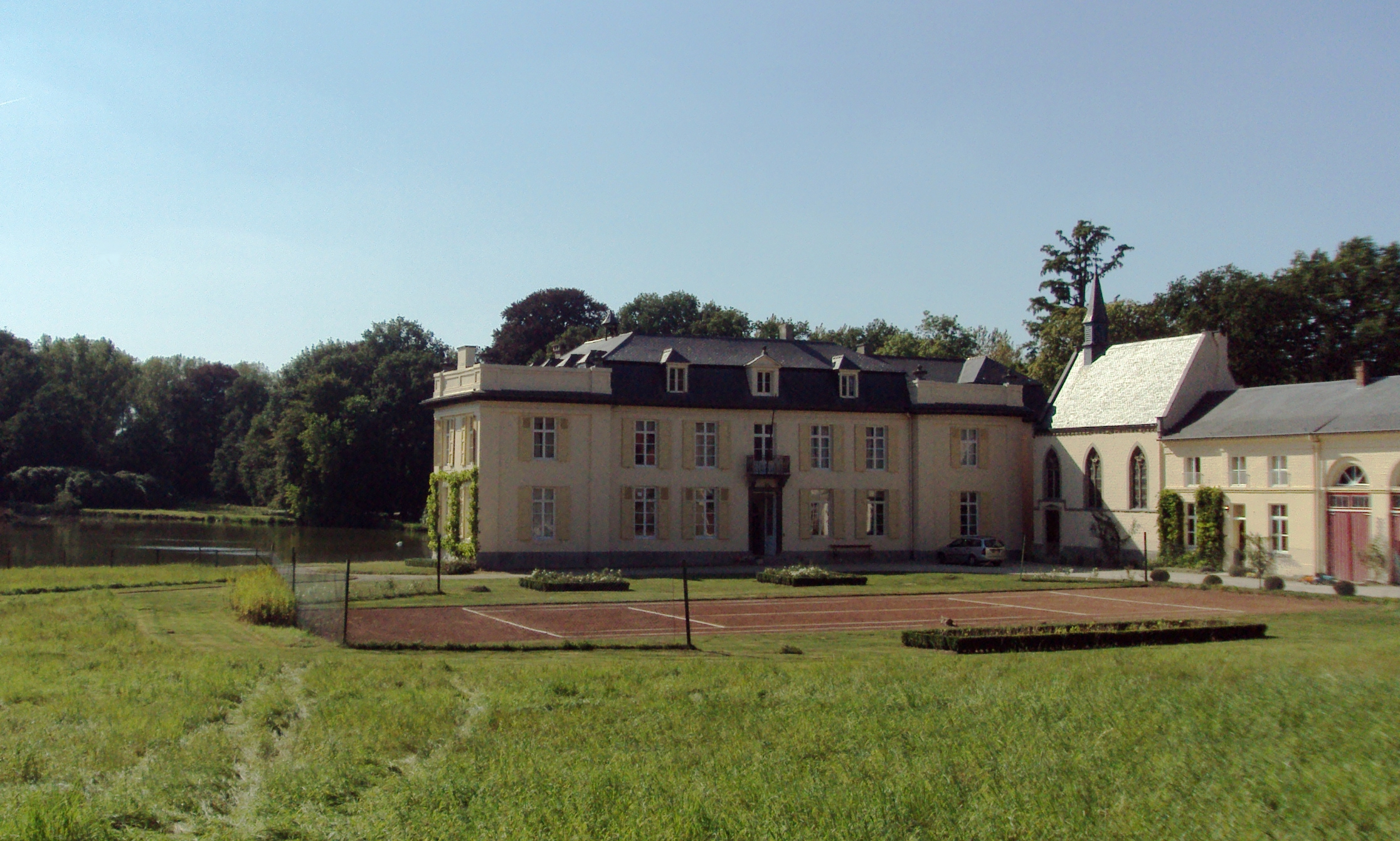 Castle at Lubbeek, Belgium. Sony Cyber-shot DSC-S950 f=6mm f/5.1 1/1250s at ISO-100. Processed using Gimp 2.6.11.